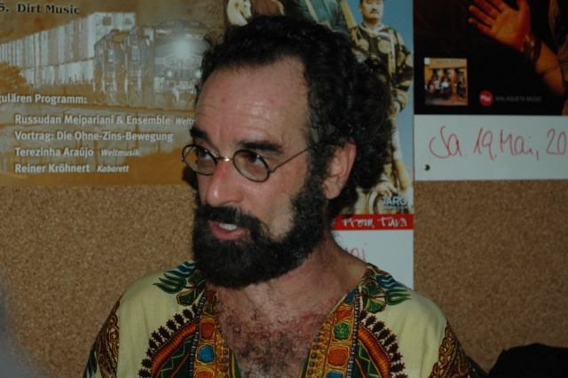 Bob Brozman, taken during his concert in Stuttgart (Germany), May 18, 2007.